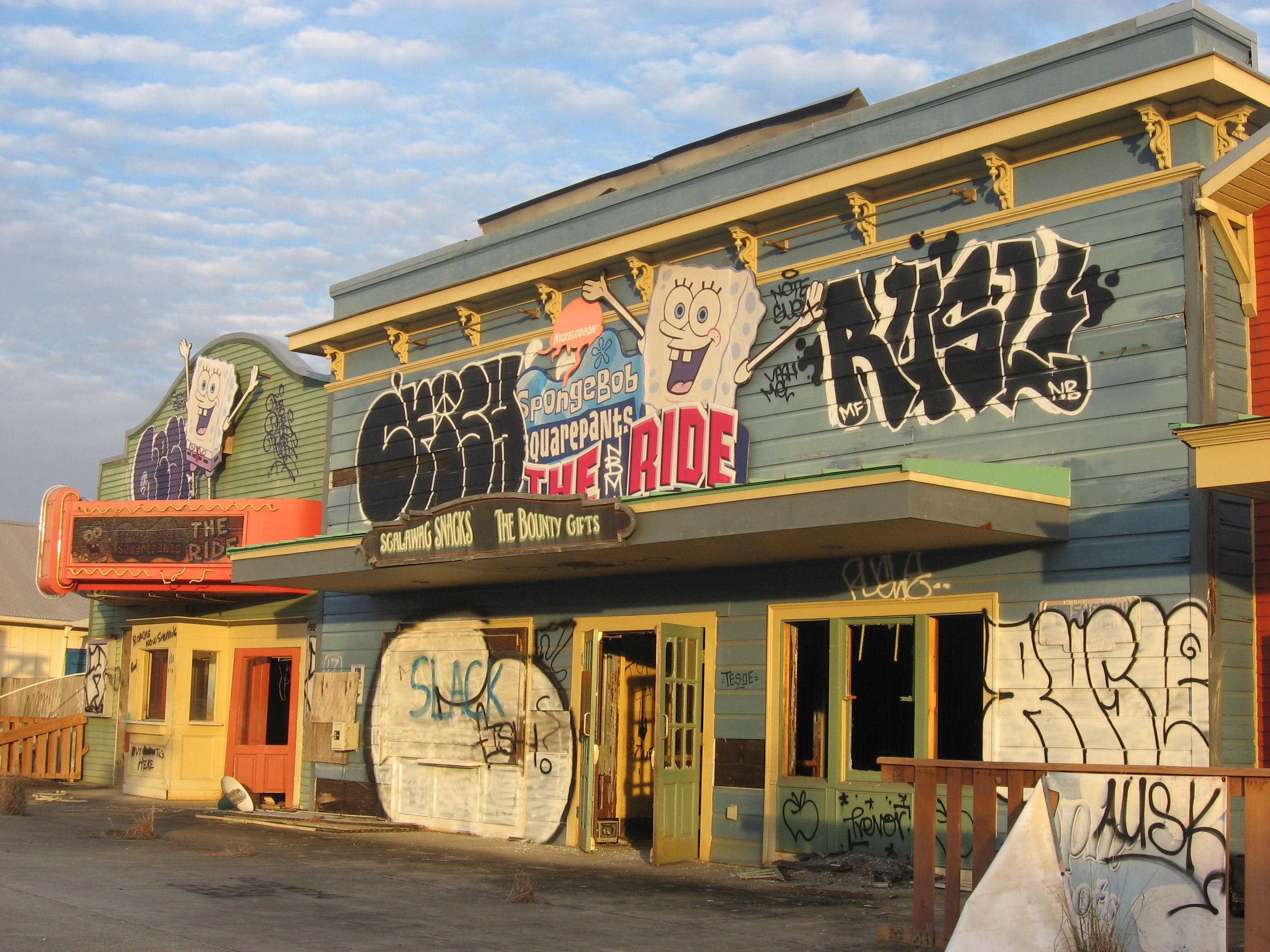 Six Flags New Orleans, abandoned amusement park.